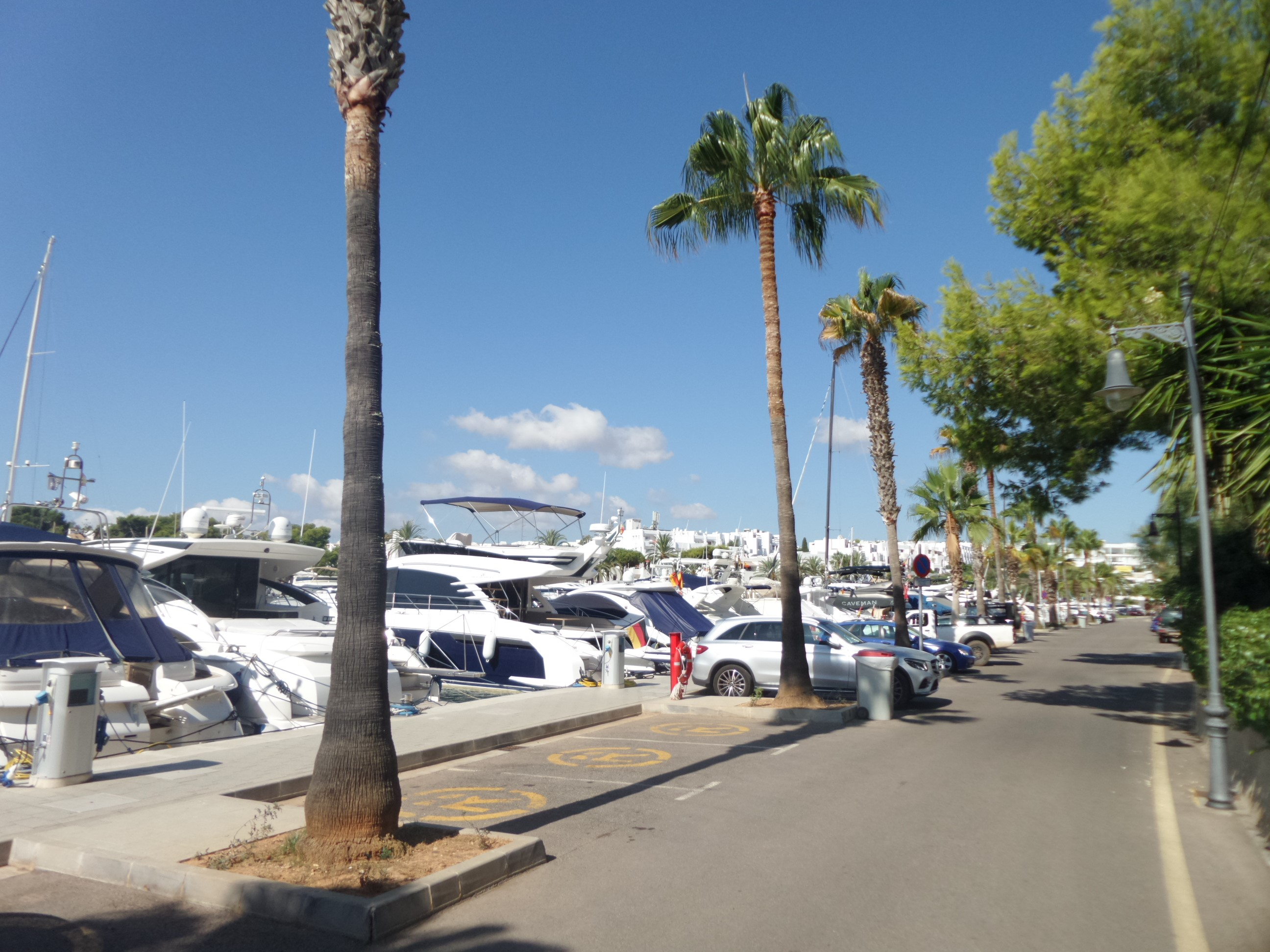 Marina of Cala d'Or